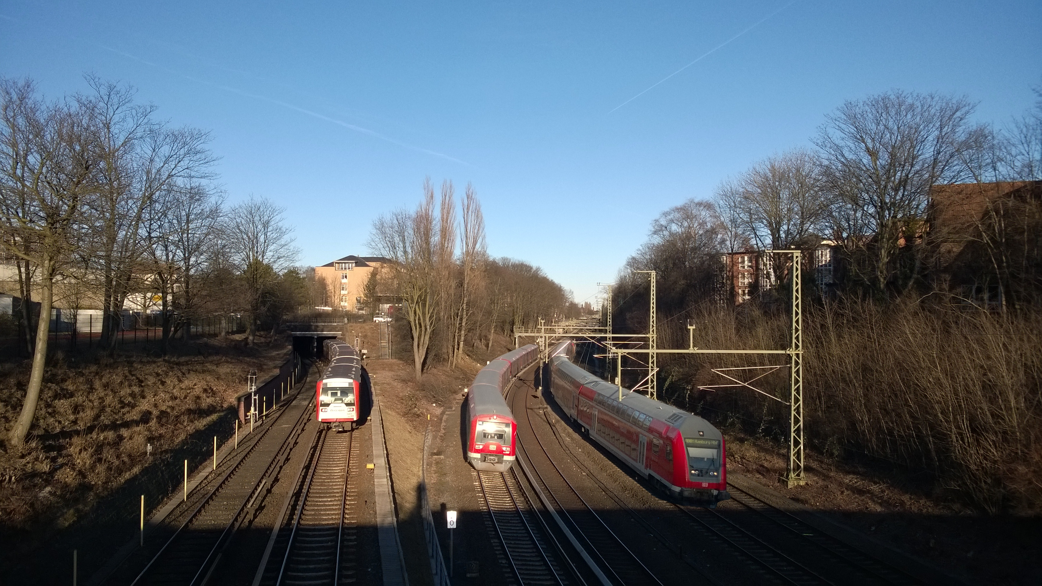 Trains in Hamburg, Germany. Left to right: U-Bahn (Line U3), S-Bahn (Line S1) und Regional train (Line RB81) (photo composition)